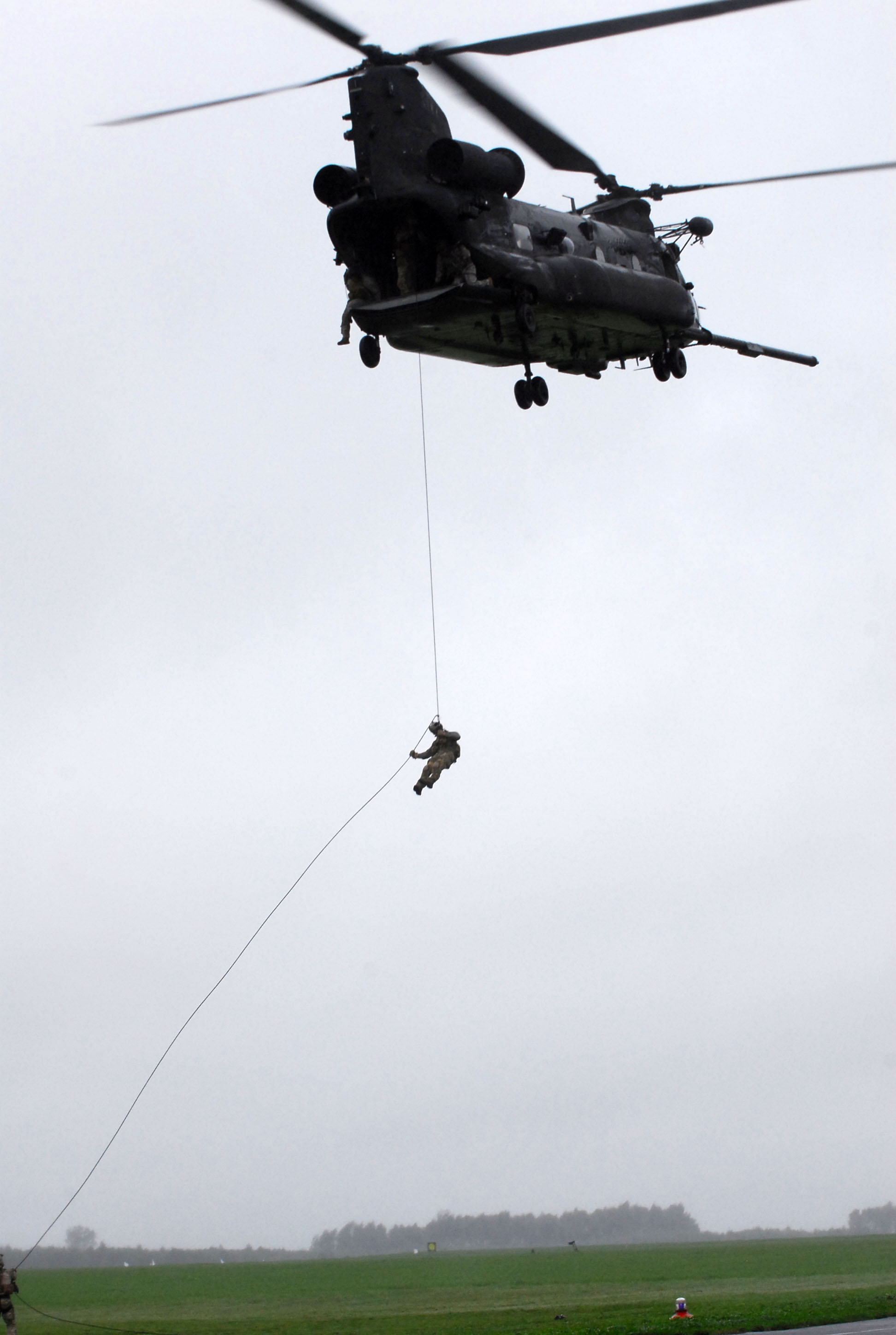 Pararescuemen from 321st Special Tactics Squadron glide down ropes while conducting Fast Rope Insertion Extraction System training at 21st Airbase Swidwin, Poland during Jackal Stone 10 Exercise on Sept. 13th. The squadron is stationed at Royal Air Force Base in Mildenhall, England. The squadron is participating in the multi-nation training that takes place once a year.